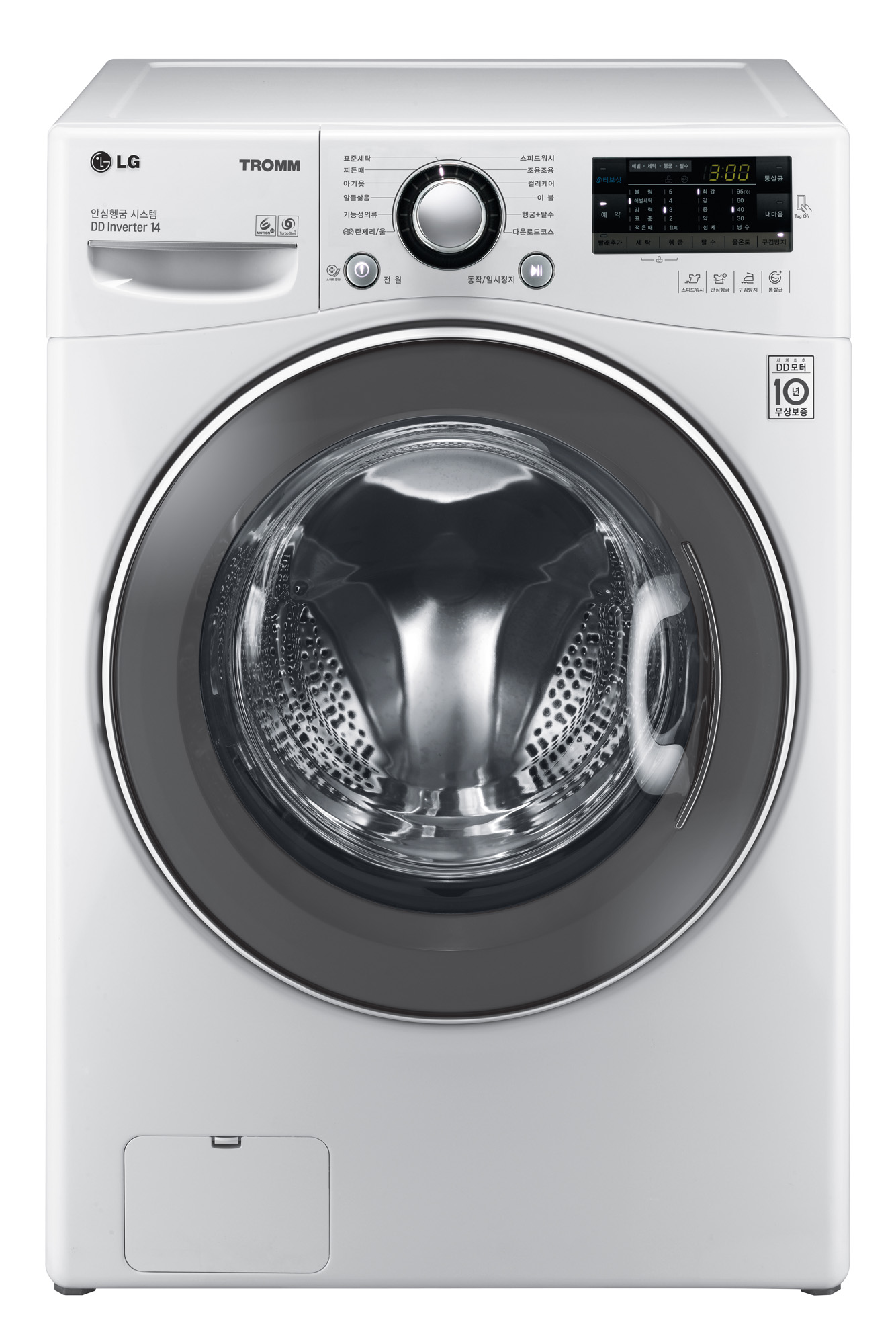 ■ ‘올해의 녹색상품’ 총 5개 제품 선정, 선정 기업 중 최다 □ ‘트롬’ 드럼세탁기/‘휘센’ 에어컨/‘디오스’ 냉장고/‘히든쿡’ 가스레인지/ ‘침구킹’ 침구청소기 등 ■ 2010년부터 5년 연속 ‘올해의 녹색상품’ 선정 쾌거 ■ LG전자 한국영업본부장 최상규 부사장 “실질적으로 고객에게 차별화한 가치 줄 수 있는 친환경 제품 지속 선보일 것” 강조 ※ Social LG전자 ( 에서 관련 보도자료를 확인하실 수 있습니다.